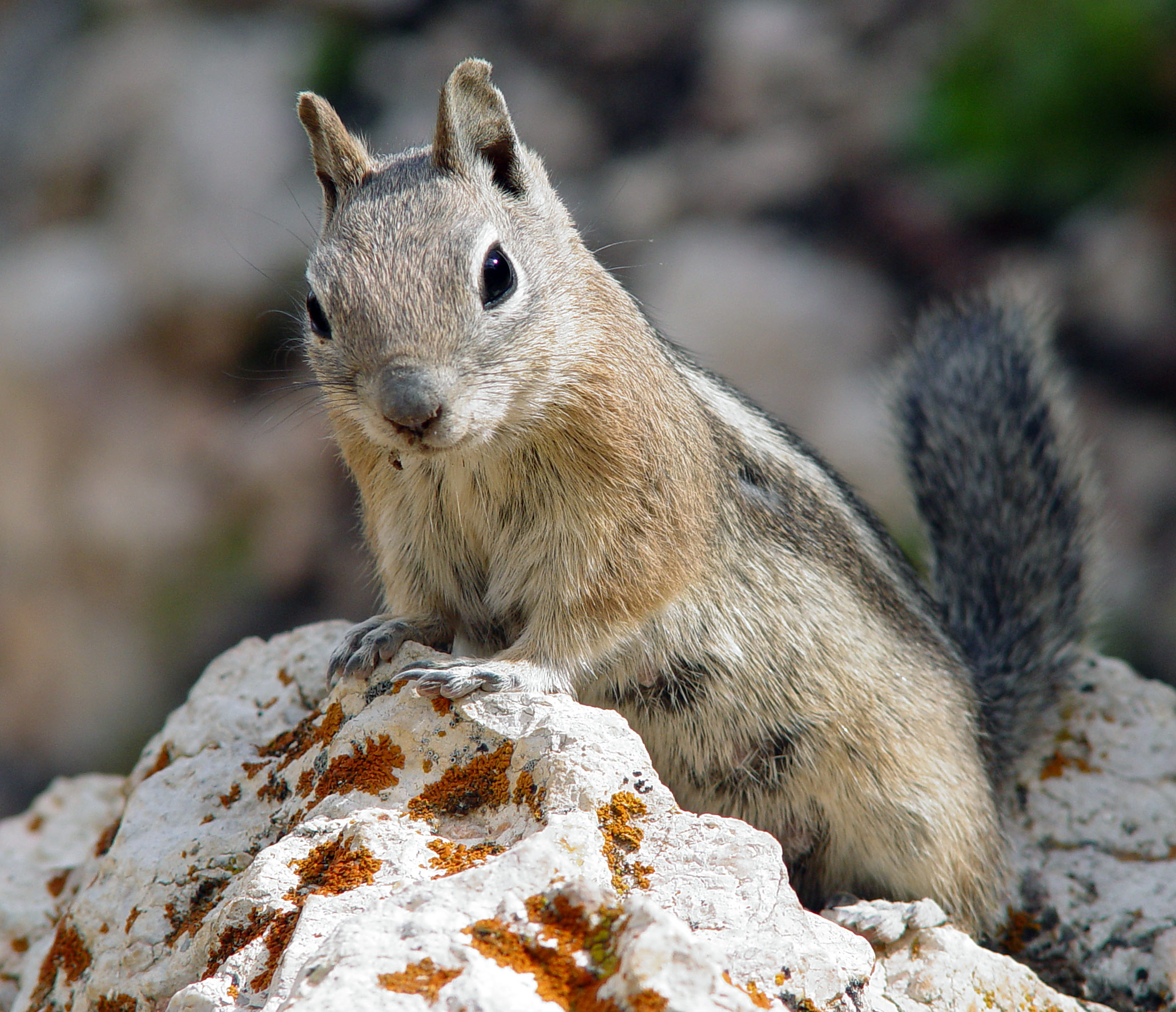 Golden-mantled Ground Squirrel (Callospermophilus lateralis). Bryce Canyon, Utah (USA). Image taken by Eborutta.